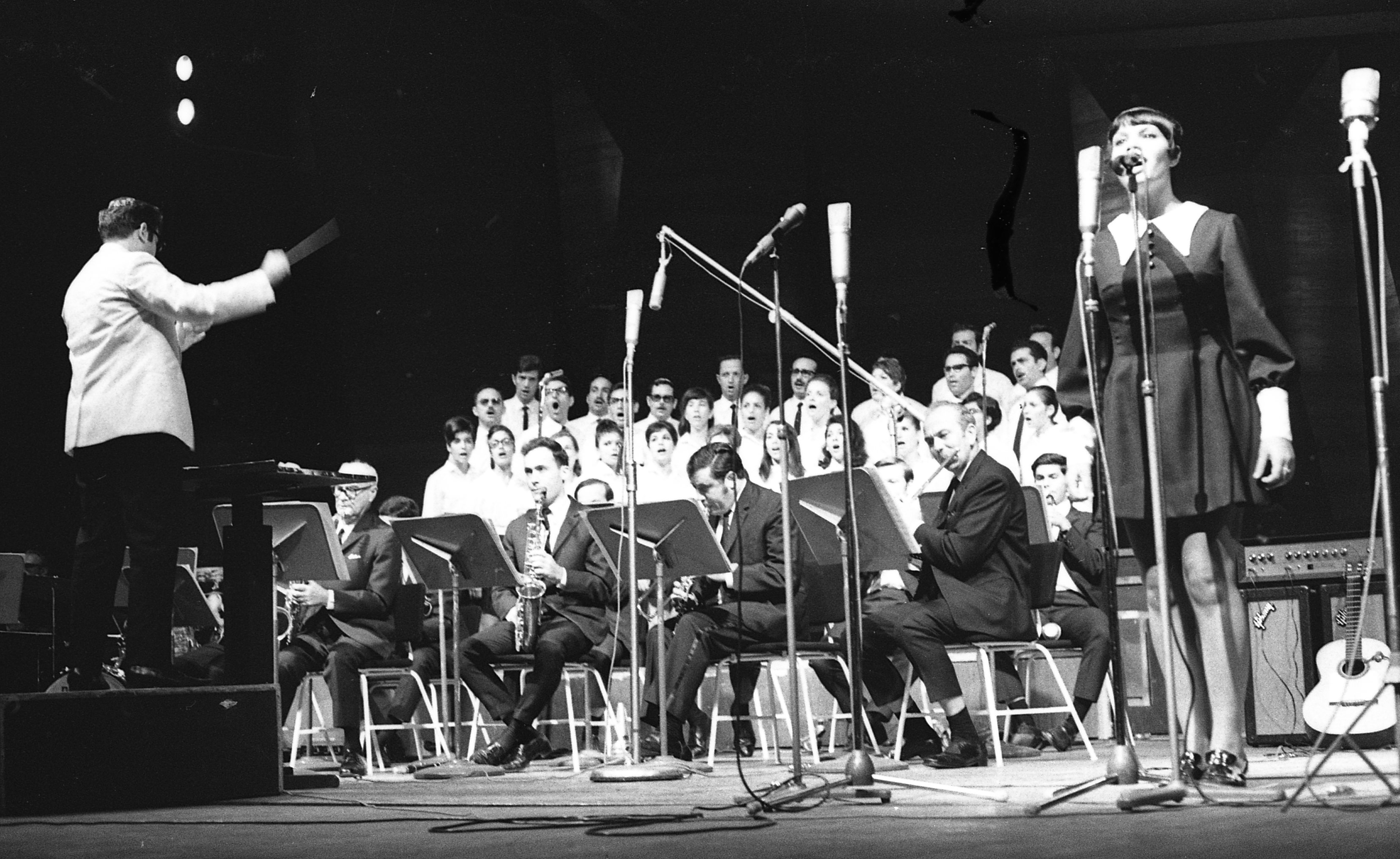 The First Hasidic Festival.